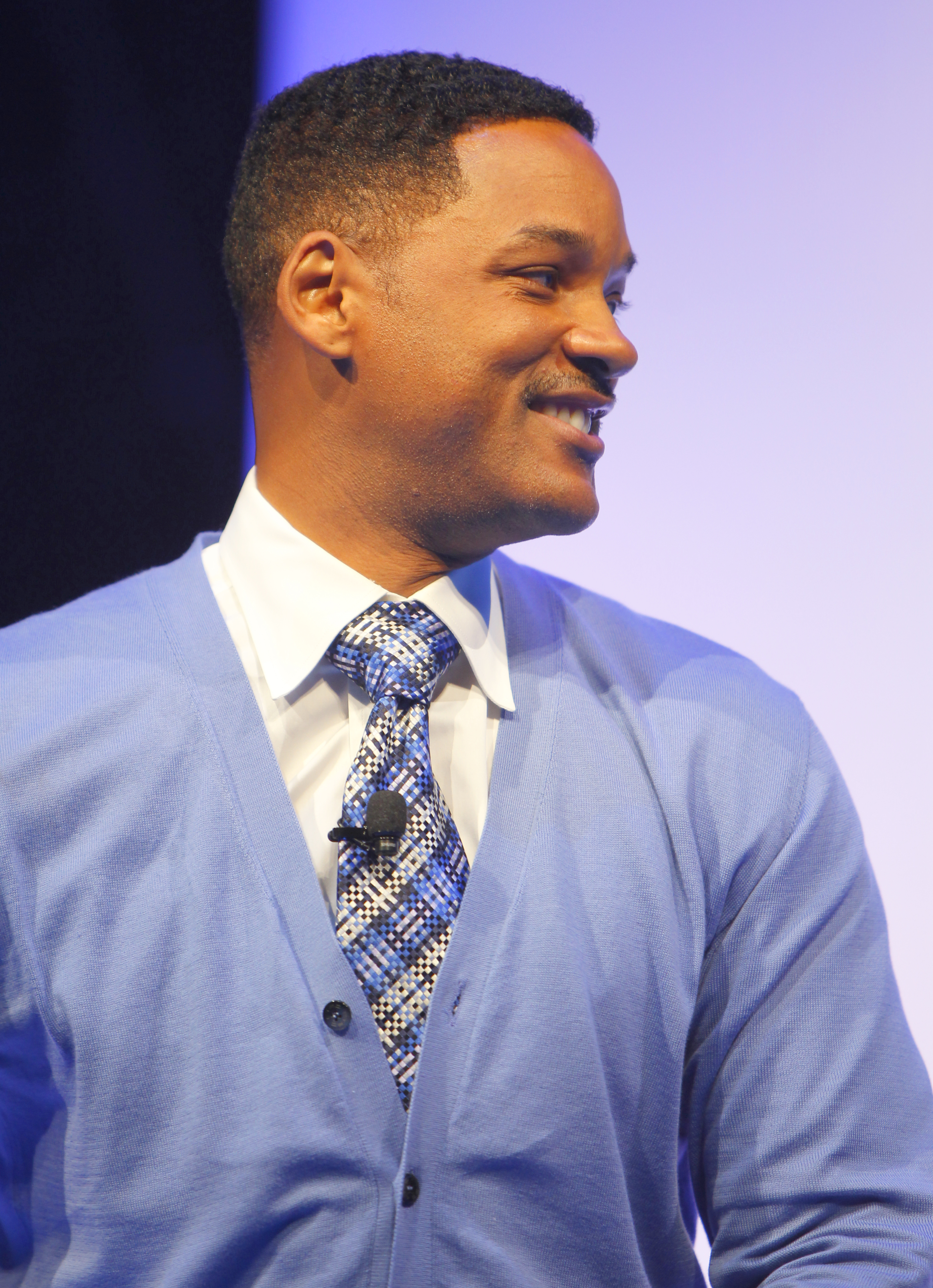 Actor Will Smith lights up the stage as he hosted the 2011 Walmart Shareholders Meeting.